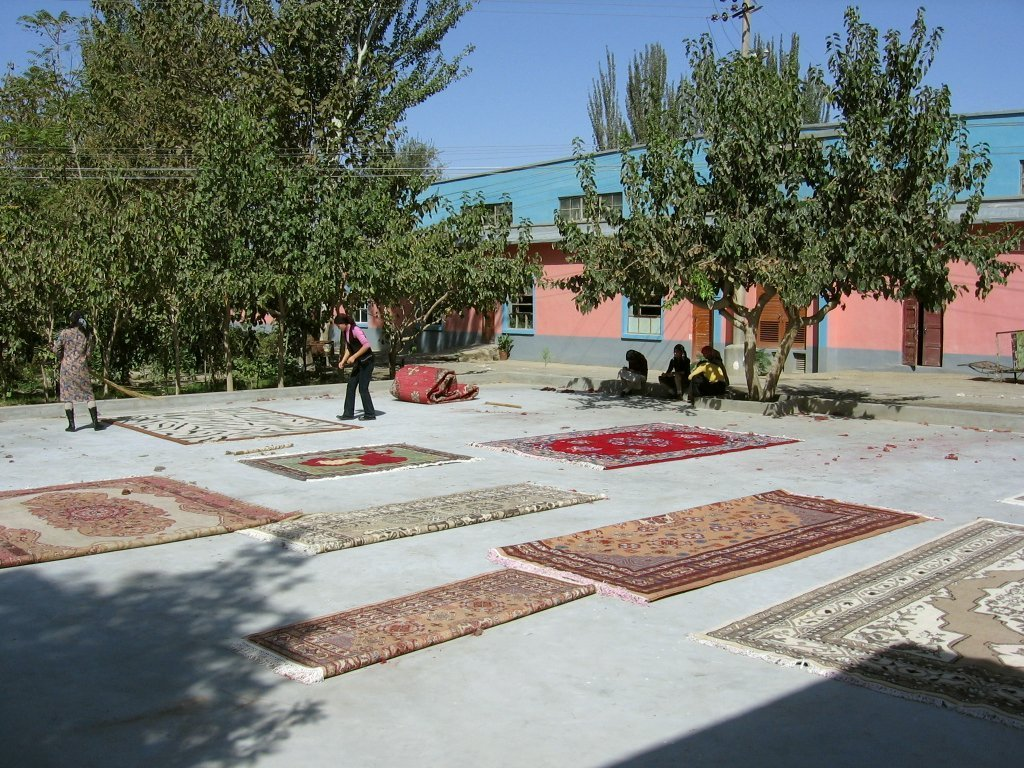 Khotan (Hotan / Hetian) is an oasis city in the Xinjiang Uygur Autonomous Region of the People's Republic of China. Carpet factory.